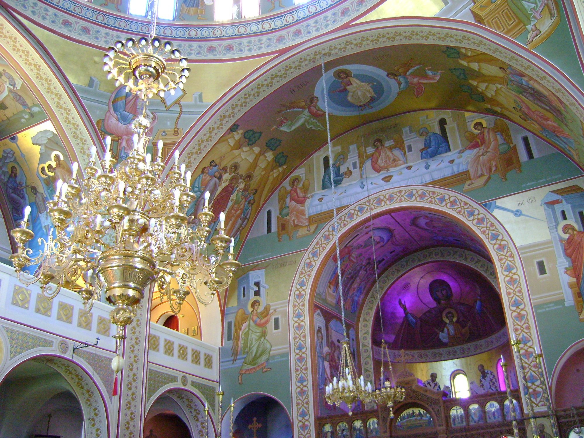 A detail of the interior of the Orthodox Cathedral of Candlemas of the Lord, in the village of Fira, Santorini Island, Greece